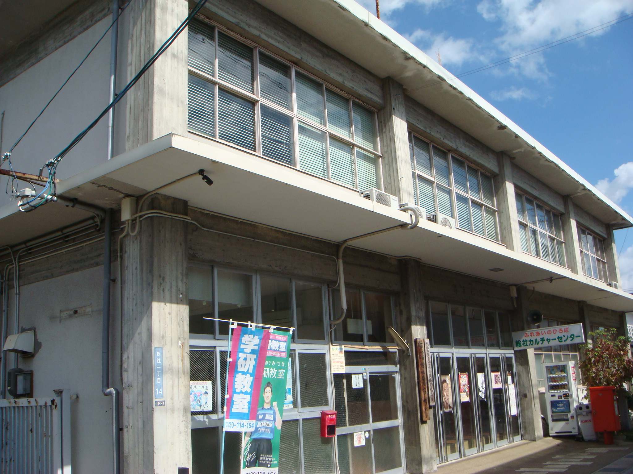 sojashi culture center